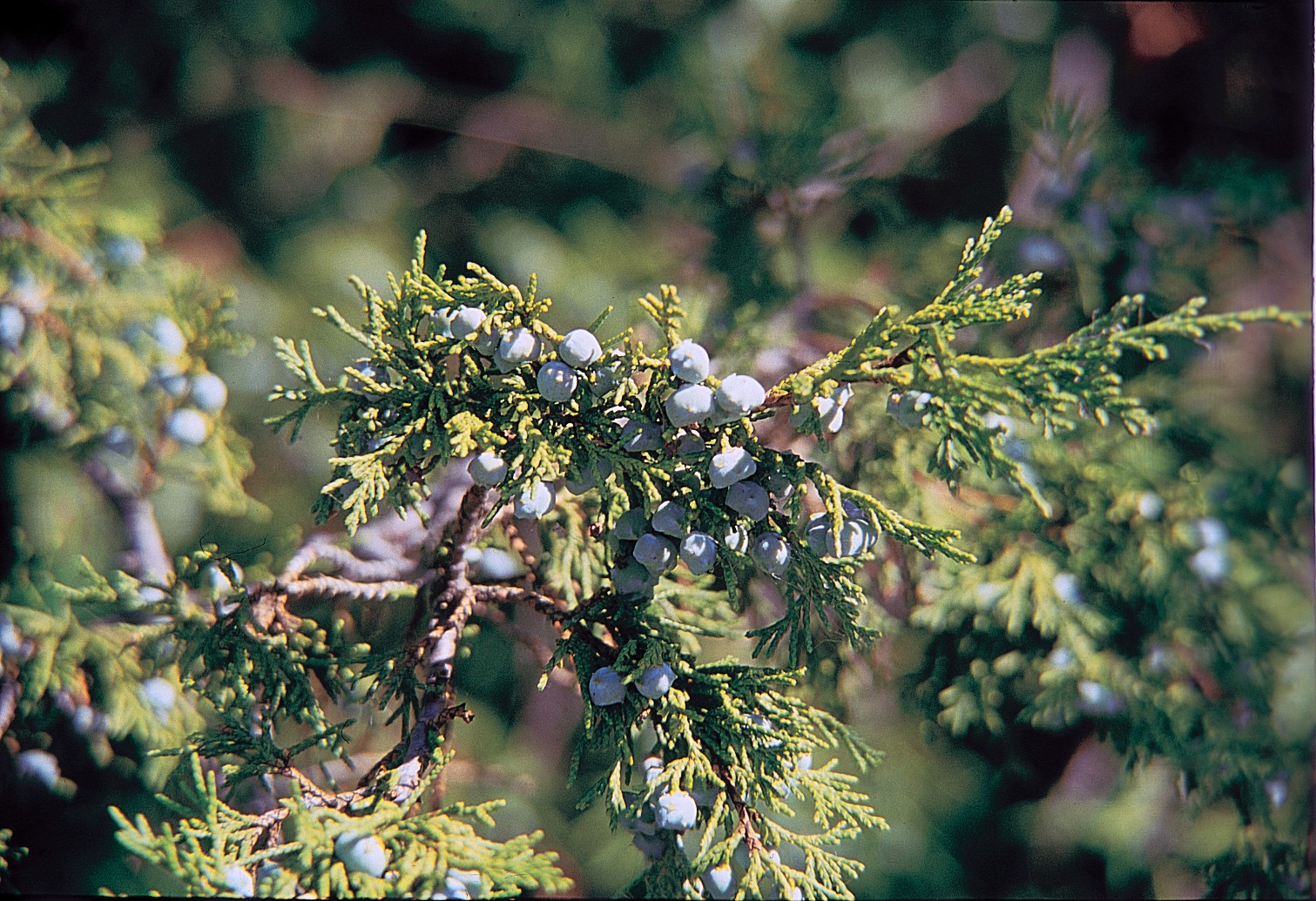 Rocky Mountain Juniper. Branch.